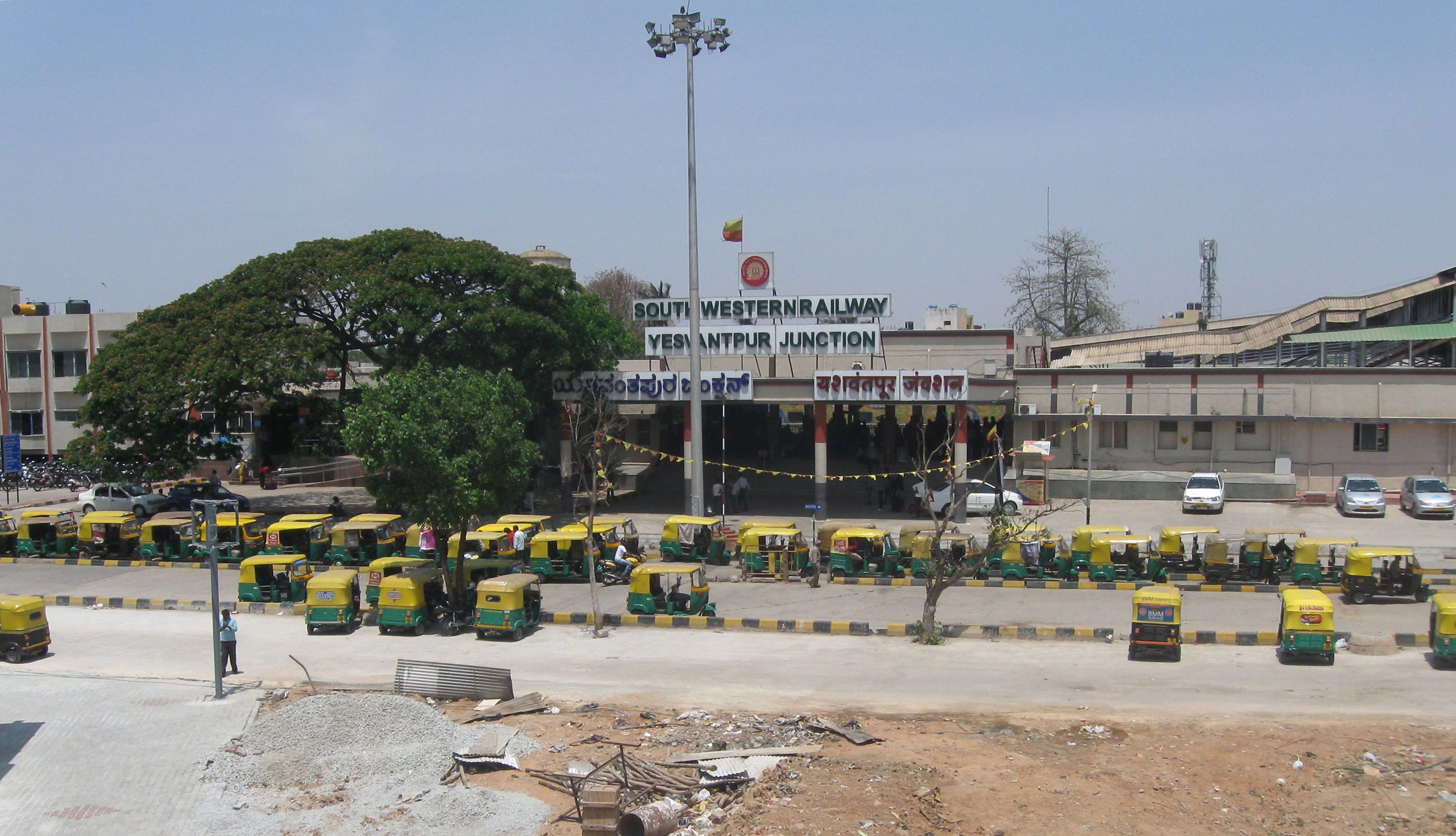 View of Yeshwantapur Railway Station entrance to Platform No. 6